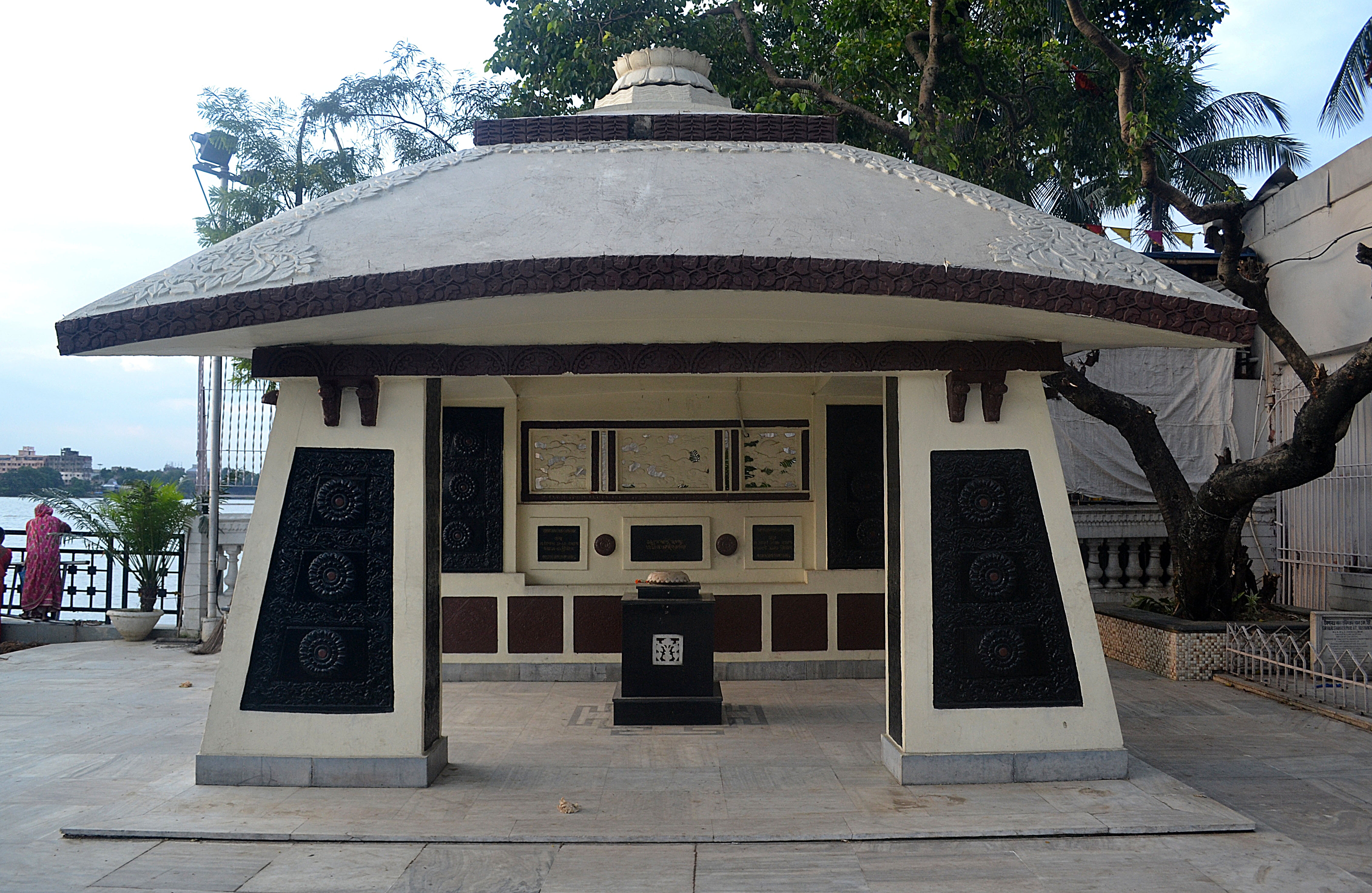 Samadhi of Rabindranath Tagore